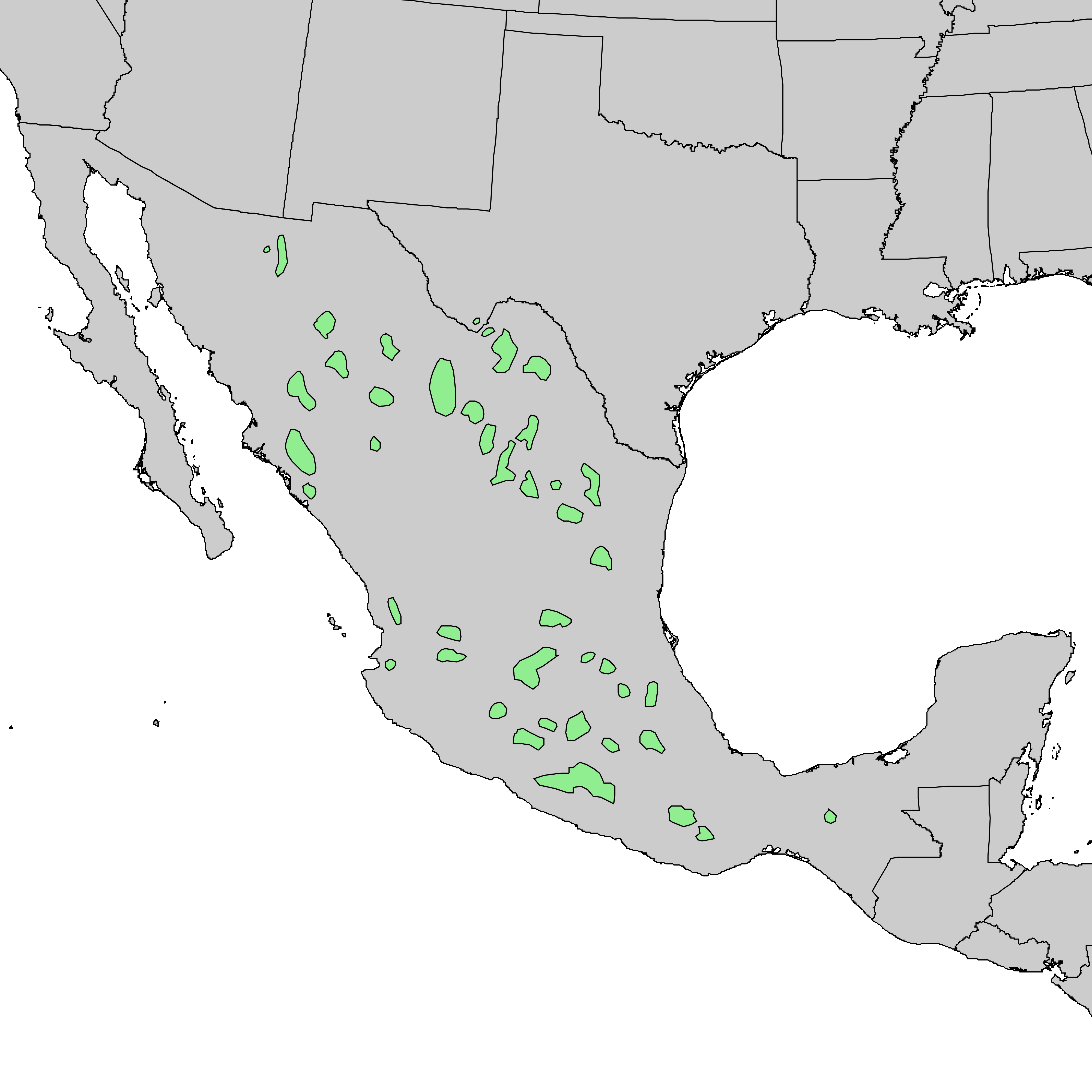 Natural distribution map for Juniperus flaccida (drooping juniper)